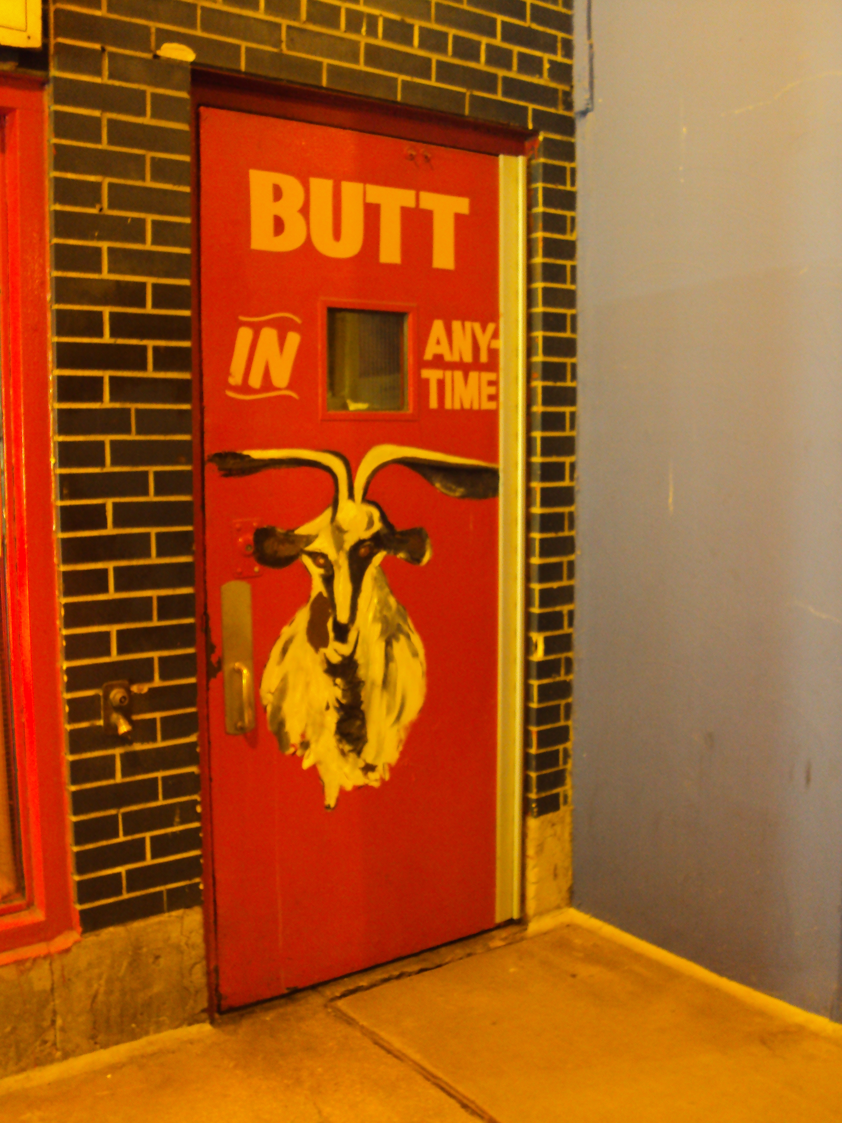 @ The Billy Goat on Lower Michigan Ave